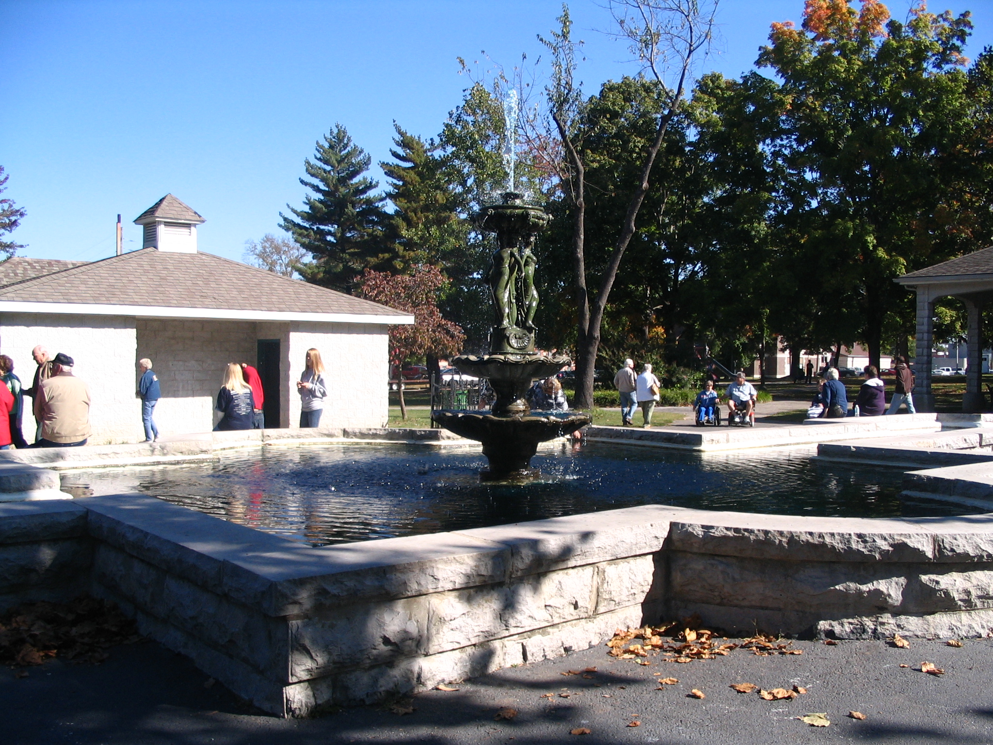 Fountain in Central Park in Carthage, MO